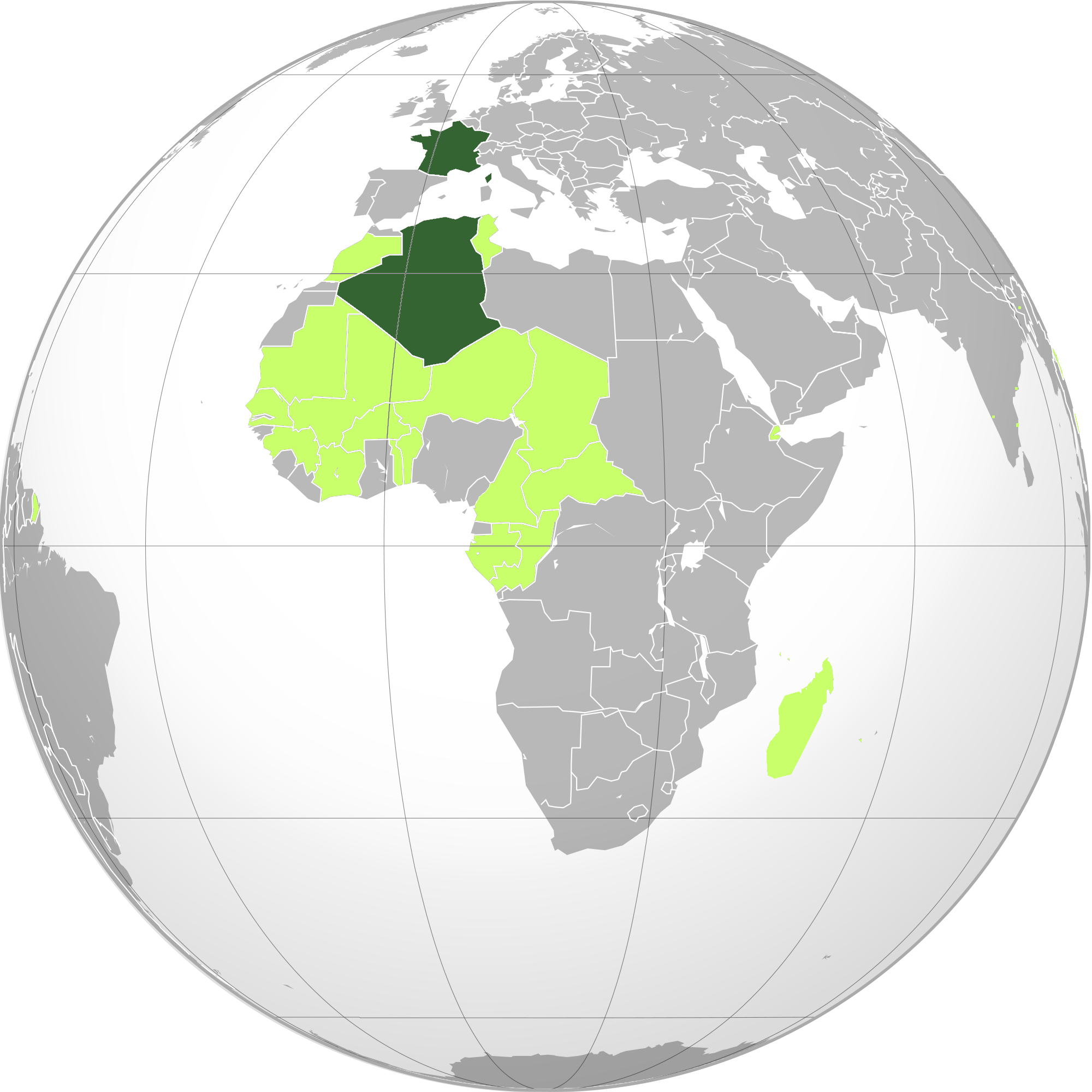 Green: Fourth French Republic Lime: French possessionsHrvatski: Mapa Četvrte Francuske Republike